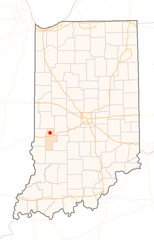 Red Dot map of Indiana, showing the location of Brazil